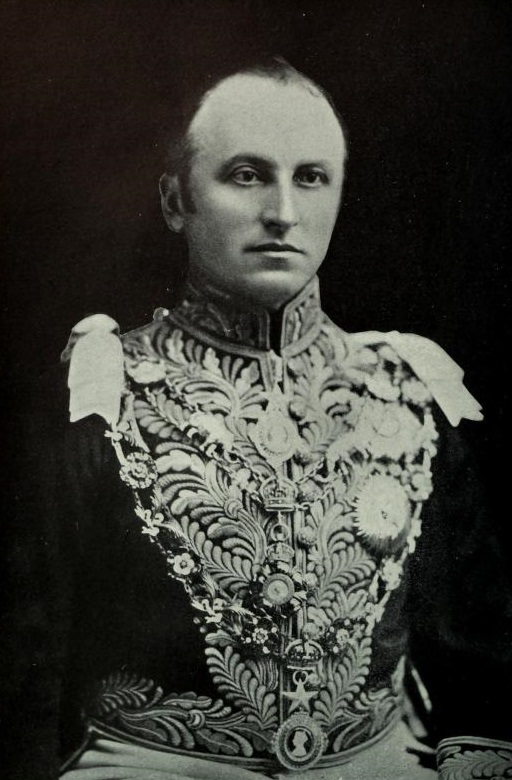 Portrait of George Curzon, 1st Marquess Curzon of Kedleston (1859-1925)